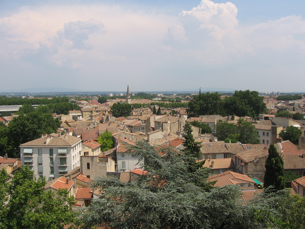 Old part of Avignon